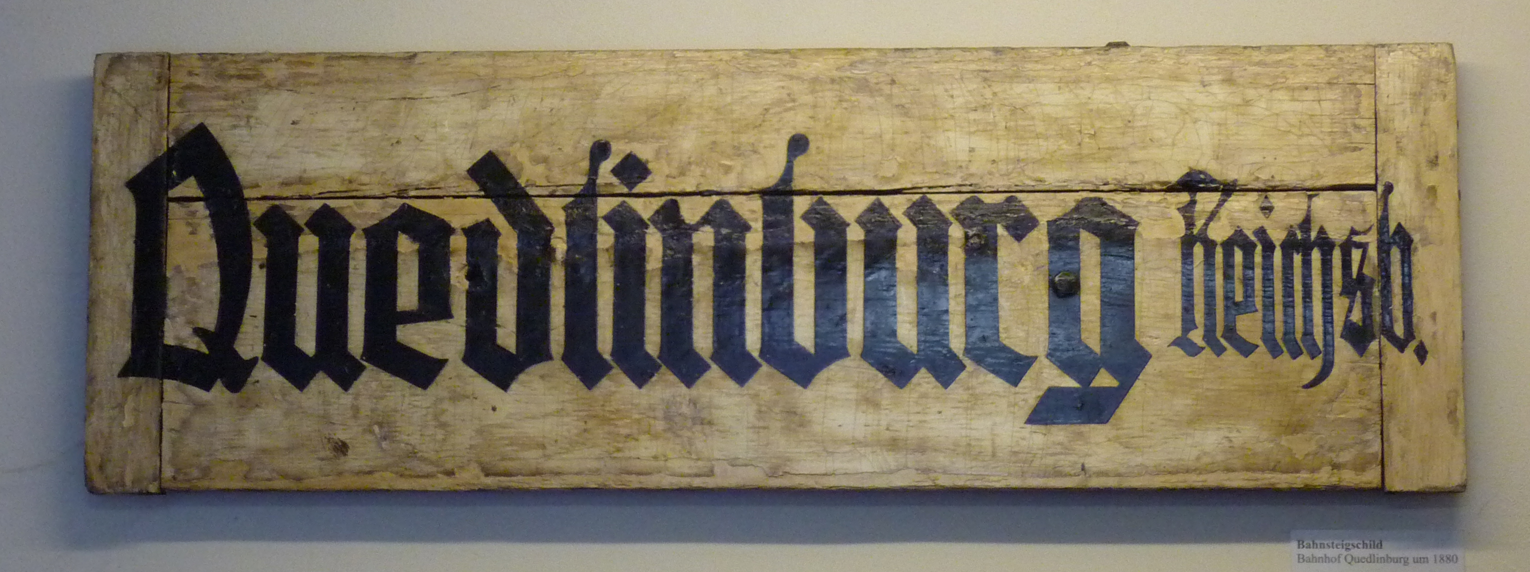 Old sign from train station Quedlinburg, Germany, used about 1880 at the platform